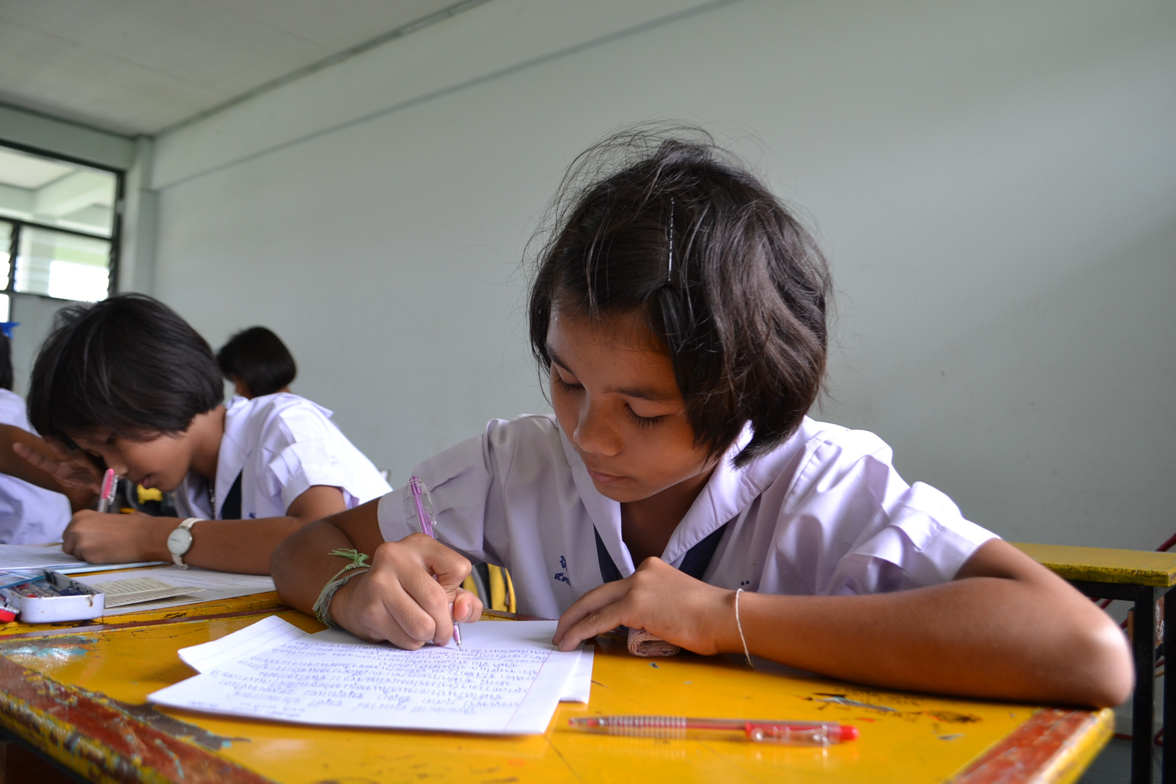 student in Thung Kalo Witthaya School , Mueang Uttaradit, Uttaradit Province, Thailand.